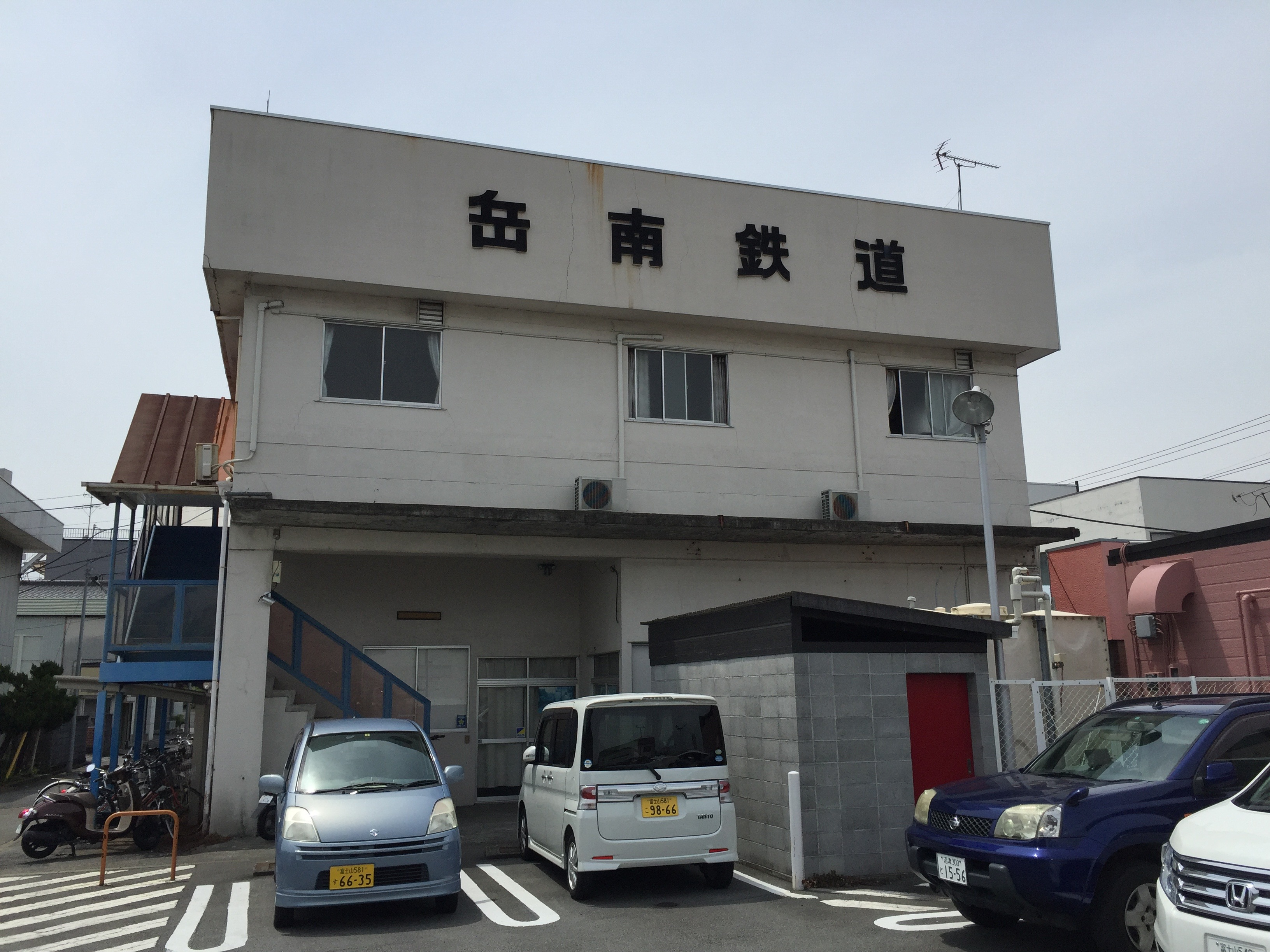 This is the corporate headquarter in 2016.